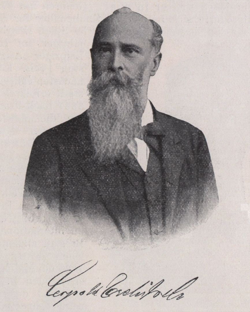 Leopold Trebitsch (1842–1906), Austrian industrialist and patron of chess